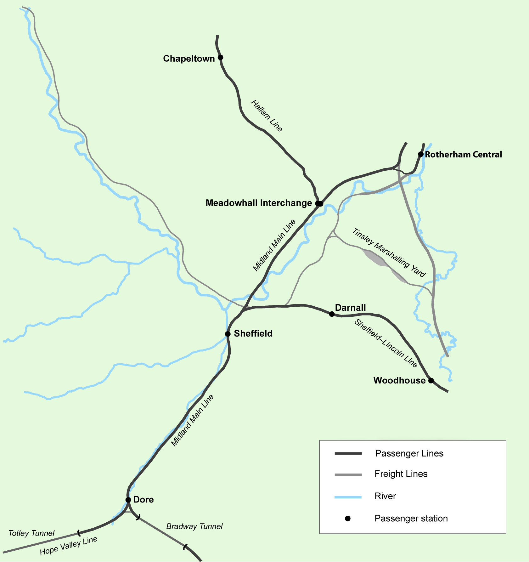 Railways in Sheffield, England as they were c.2005.